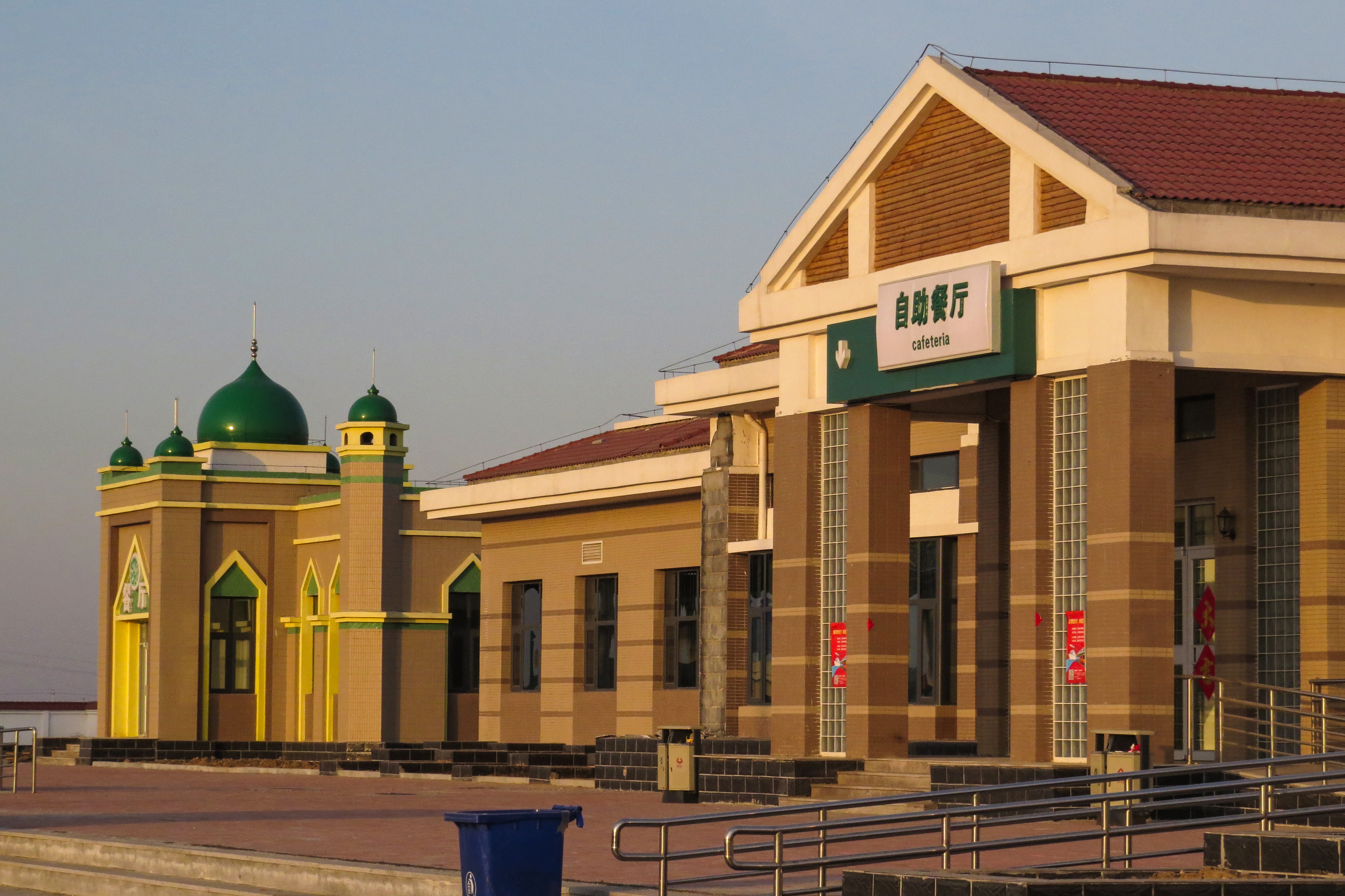 The left is a halal restaurant - I thought it was a mosque at first.